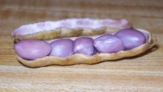 Photographed by Robert Porter, to be used for display on boiled peanut page. Photo is of a rare 5-lobe boiled peanut, in shell.